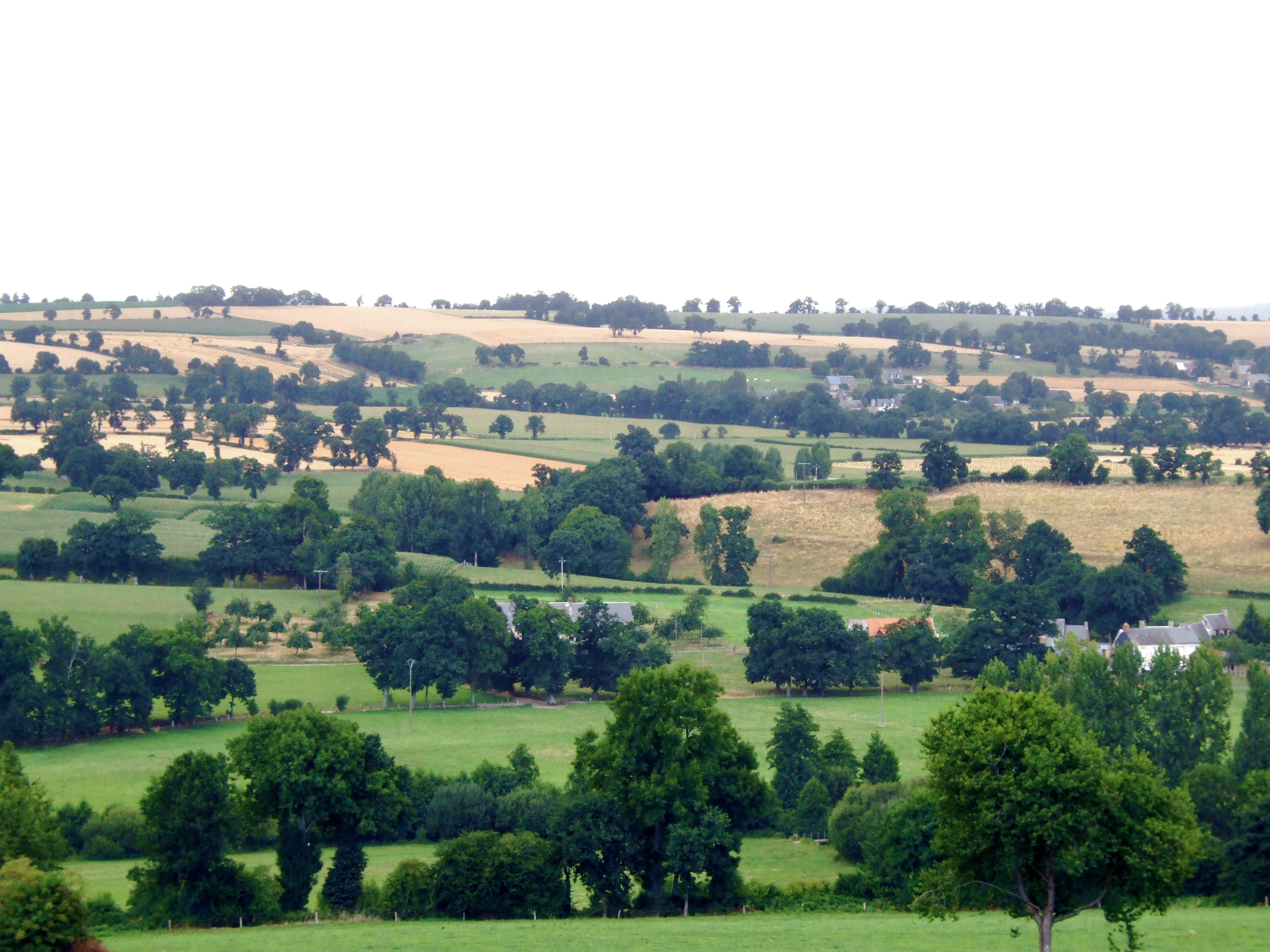 Bocage virois - Idyllic rural scenery in lower Normandy